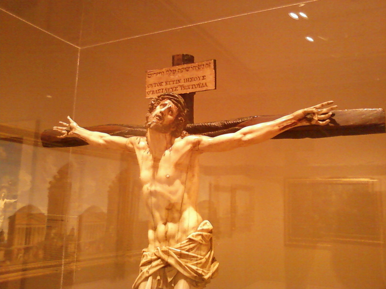 Crucifix of precious materials by Gaspar Núñez Delgado from 1599